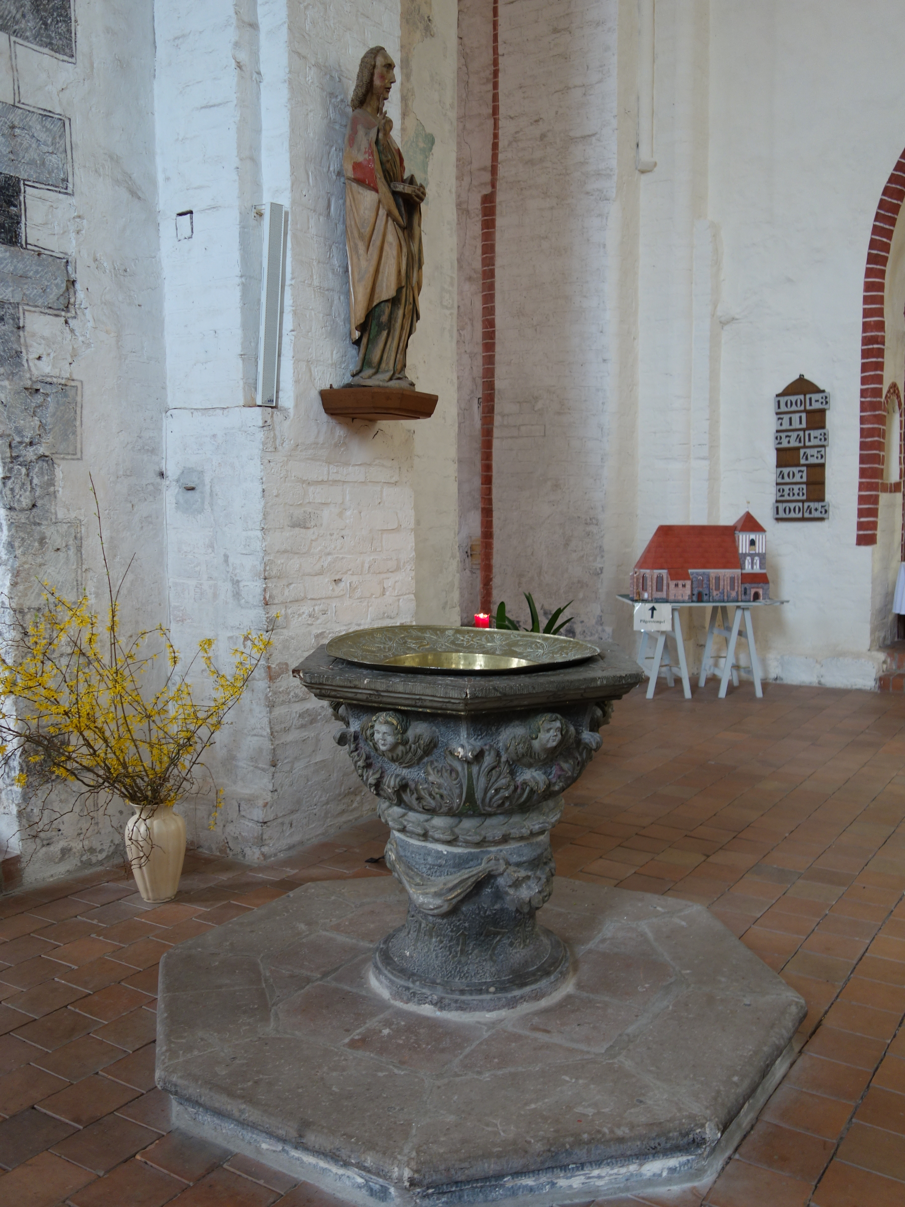 Baptismal font of church St. Peter and Paul, Wusterhausen municipality, Ostprignitz-Ruppin district, Brandenburg state, Germany